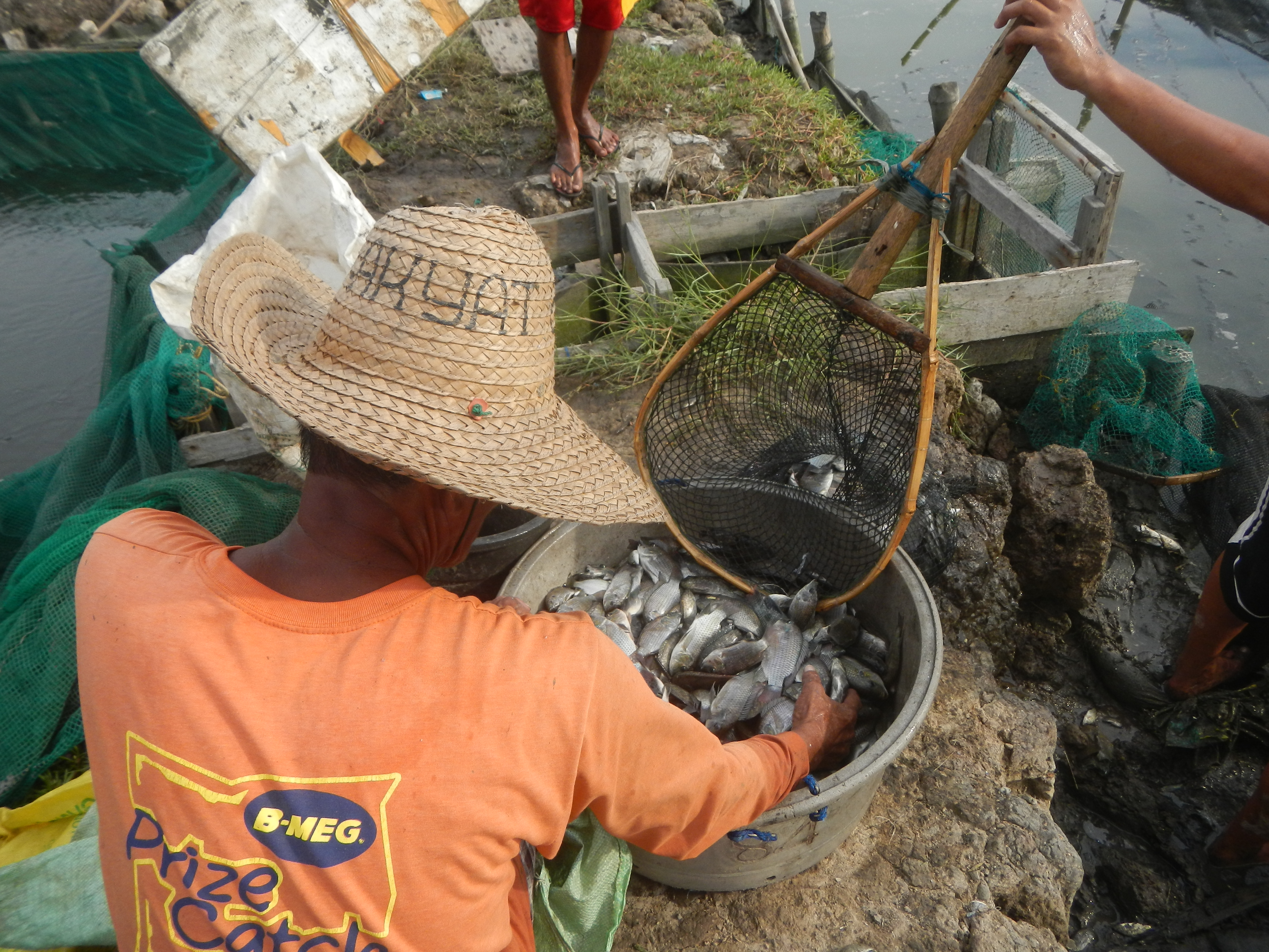 Harvesting fish in Malolos City, Bulacan War declared vs ‘Gloria fish’ ‘Gloria’ an abomination in Bataan fishponds Gloria, or the black chin tilapia (Sarotherodon melanotheron), Blackchin tilapia (Sarotherodon melanotheron) Isla Babatnin, City of Malolos, Bulacan (Galas River, Pangagtan River, Malaway River and Bugwan River, Malolos City) Barangays Babatnin 14°46'52"N 120°49'2"E Malolos City, Bulacan, Bulacan from MacArthur Highway or Manila North Road in Malolos Historic Town Center (accessed from or interconnecting with Cagayan Valley Road, Baliuag-Pulilan-Guiguinto, Bulacan, Pan-Philippine Highway, also known as the Maharlika "Nobility/freeman" Highway) (Note: Judge Florentino Floro, the owner, to repeat, Donor Florentino Floro of all these photos hereby donate gratuitously, freely and unconditionally Judge Floro, all these photos to and for Wikimedia Commons, exclusively, for public use of the public domain, and again without any condition whatsoever).